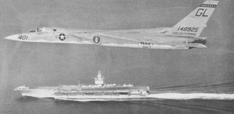 A North American A3J-1 Vigilante bomber (BuNo 148425) of heavy attack squadron VAH-7 Peacemakers of the Fleet over the U.S. aircraft carrier USS Enterprise (CVAN-65) in 1962. This aircraft was later converted to an RA-5C.